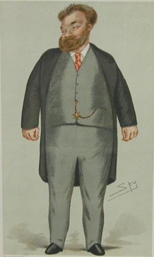 Caricature of Valentine Cameron Prinsep. Caption read "Val".